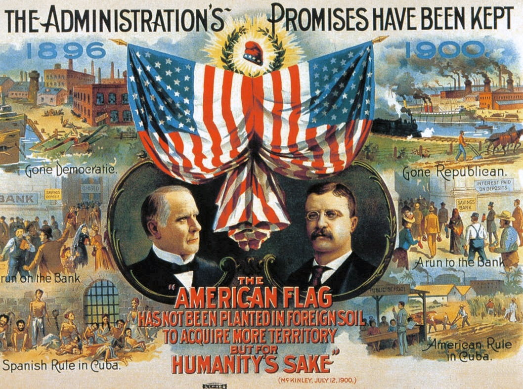 A 1900 Republican campaign poster for the US presidential election, with portraits of President William McKinley and Vice Presidential candidate Theodore Roosevelt at center. On the left side "Gone Democratic" shows the US in economic slump and Cuba shackled by Spain; on the right side "Gone Republican" shows the US prosperous and Cuba being educated under US tutelage.